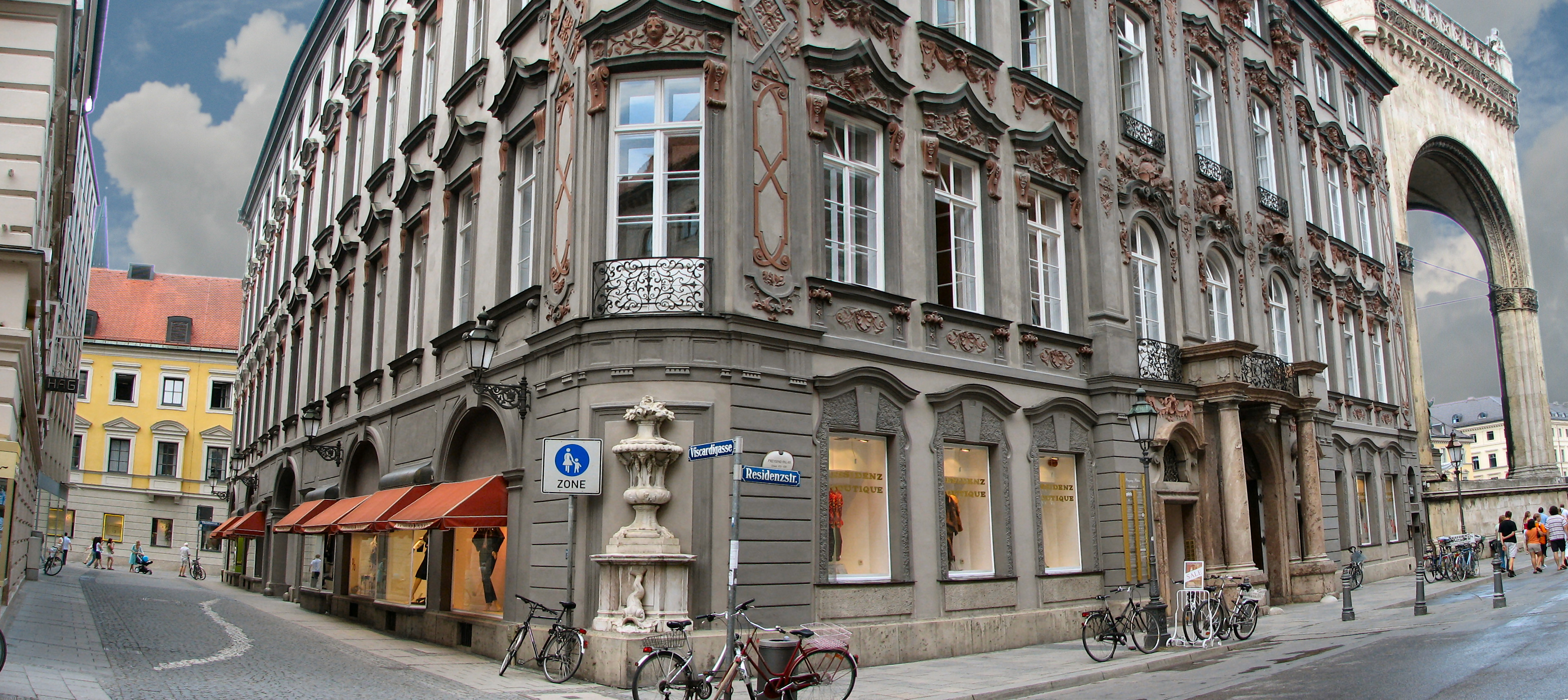 own ohoto, combination of 4 pictures, own work, Gerhard R. Schulze, 2007-06-27